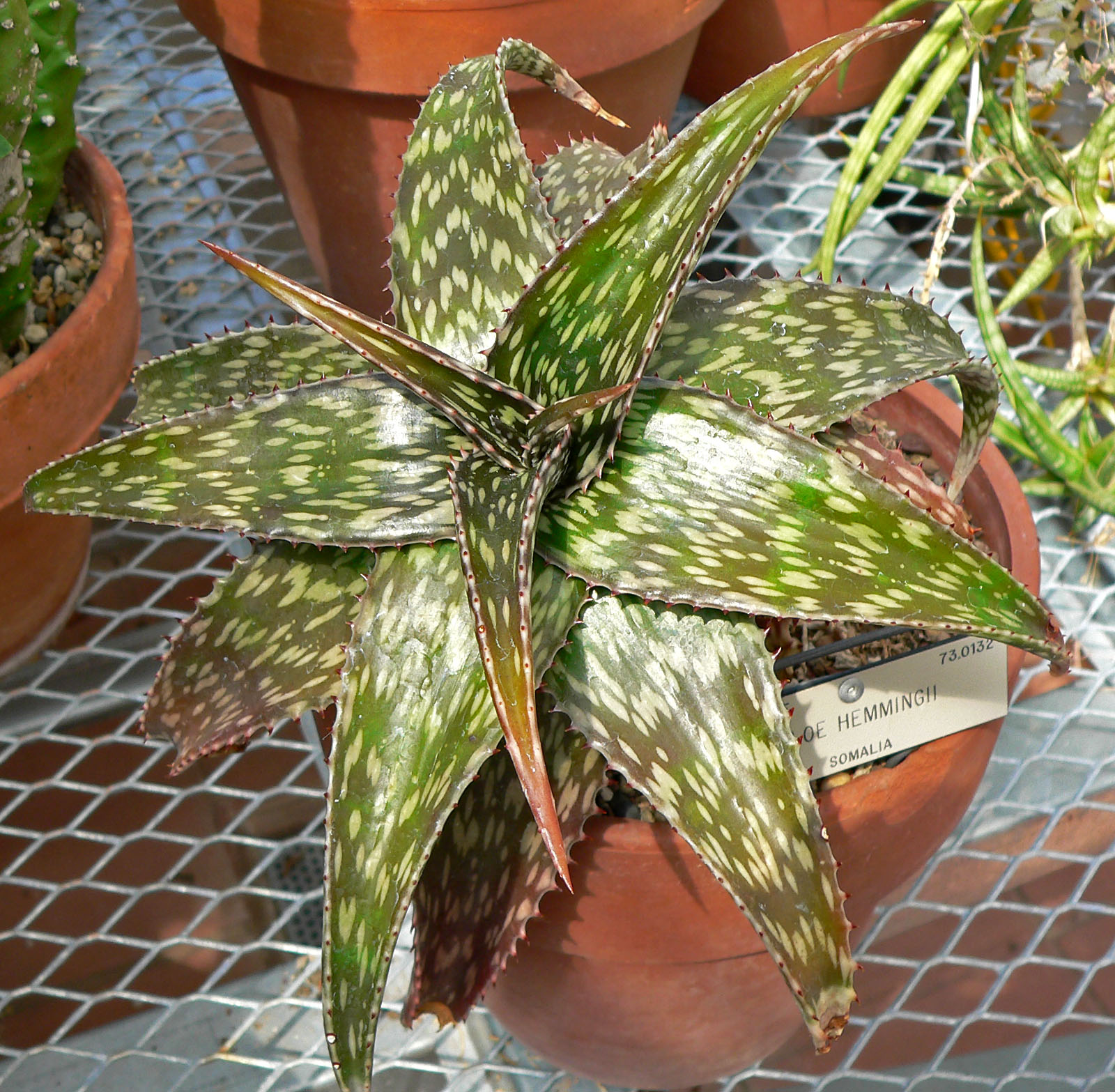 Aloe hemmingii at the University of California Botanical Garden, Berkeley, California